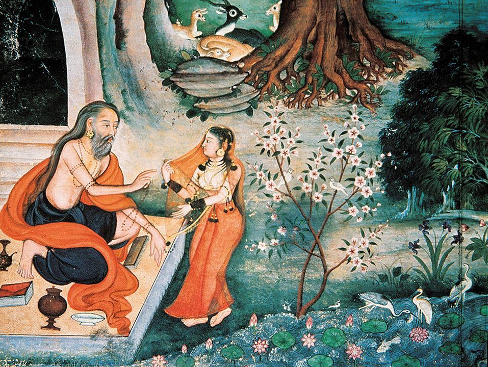 Episode of Balakanda